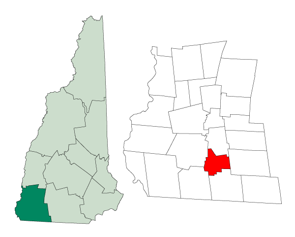 Map of a municipality in Cheshire County, New Hampshire